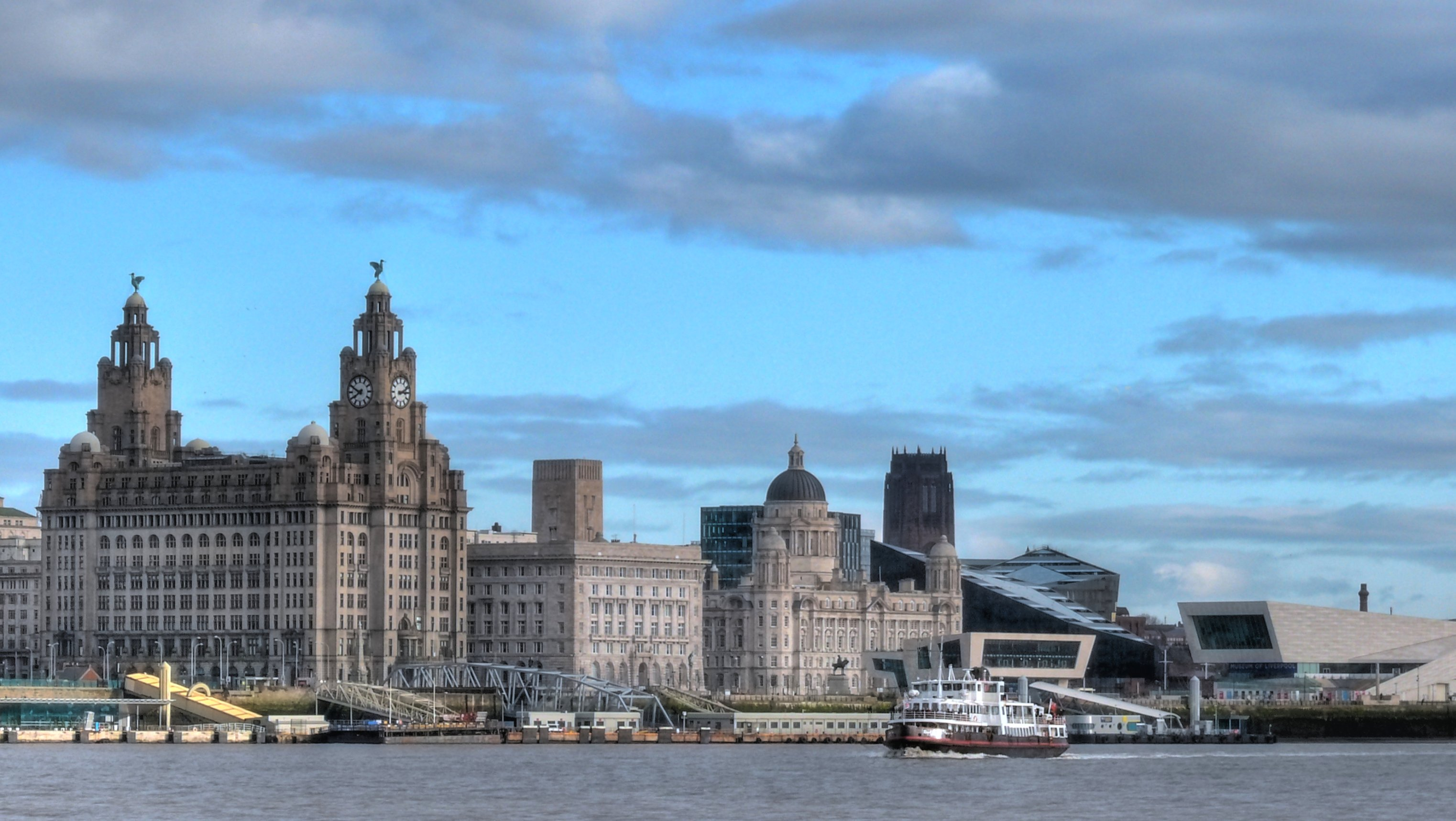 "Royal Iris of The Mersey" Leaving The Pier Head Landing Stage Liverpool.